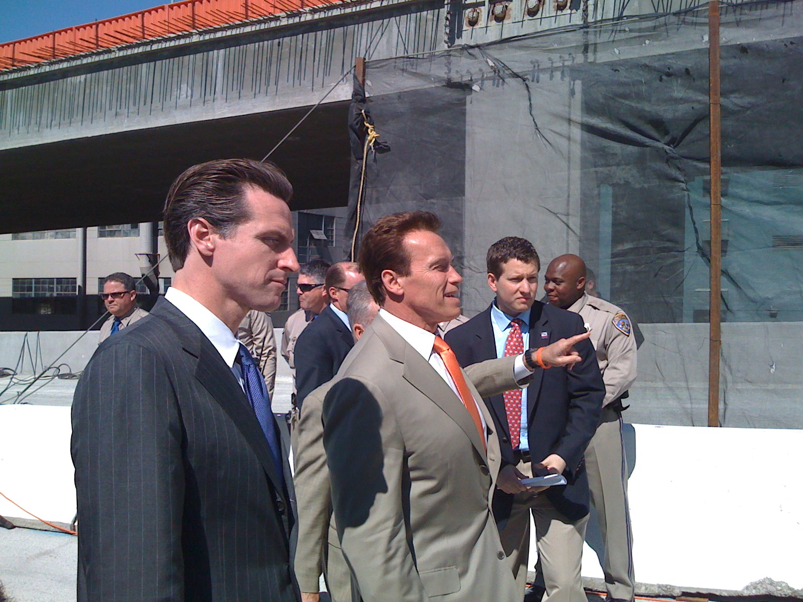 SF Mayor Gavin Newsom and California Governor Arnold Schwarzenegger at the San Francisco West Bay Approach Bay Bridge official opening, Friday, April 11, 2008